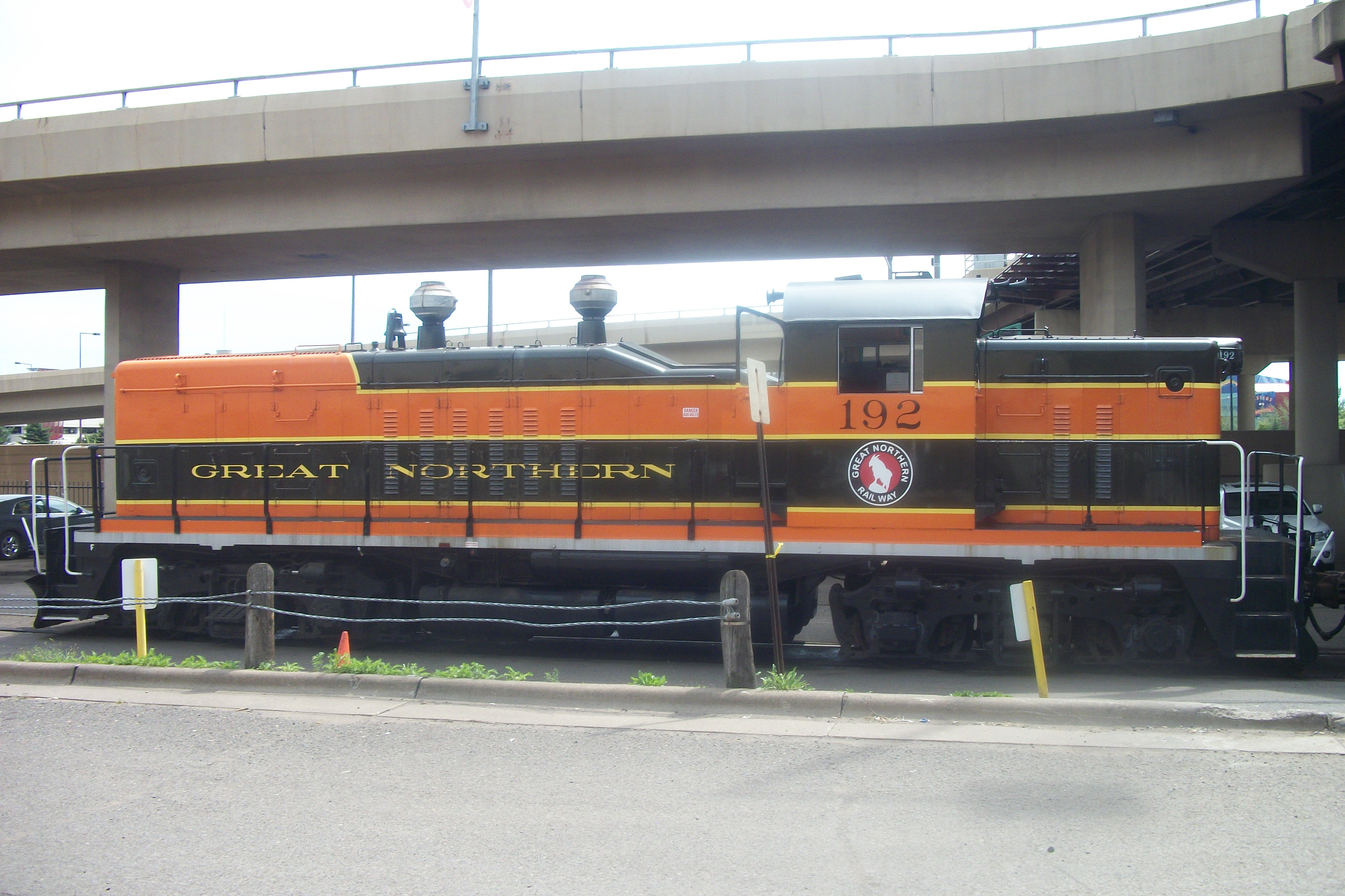 GN 192 in Duluth